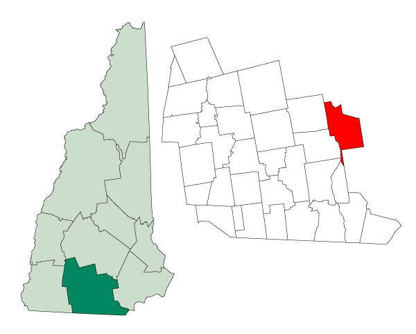 Map of a municipality in Hillsborough County, New Hampshire